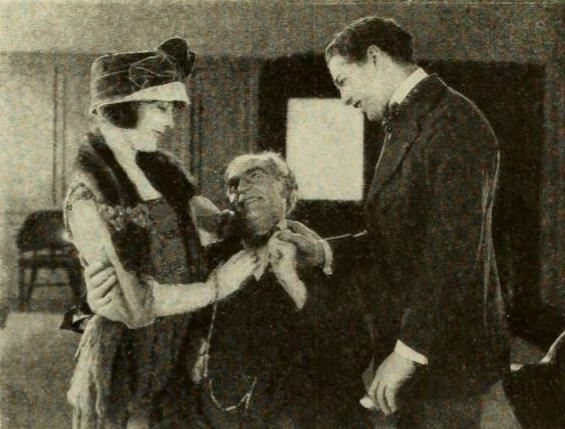 Still from the American drama film Remembrance (1922) with Patsy Ruth Miller, Claude Gillingwater, and Cullen Landis, on page 65 of the November 1922 Photoplay.